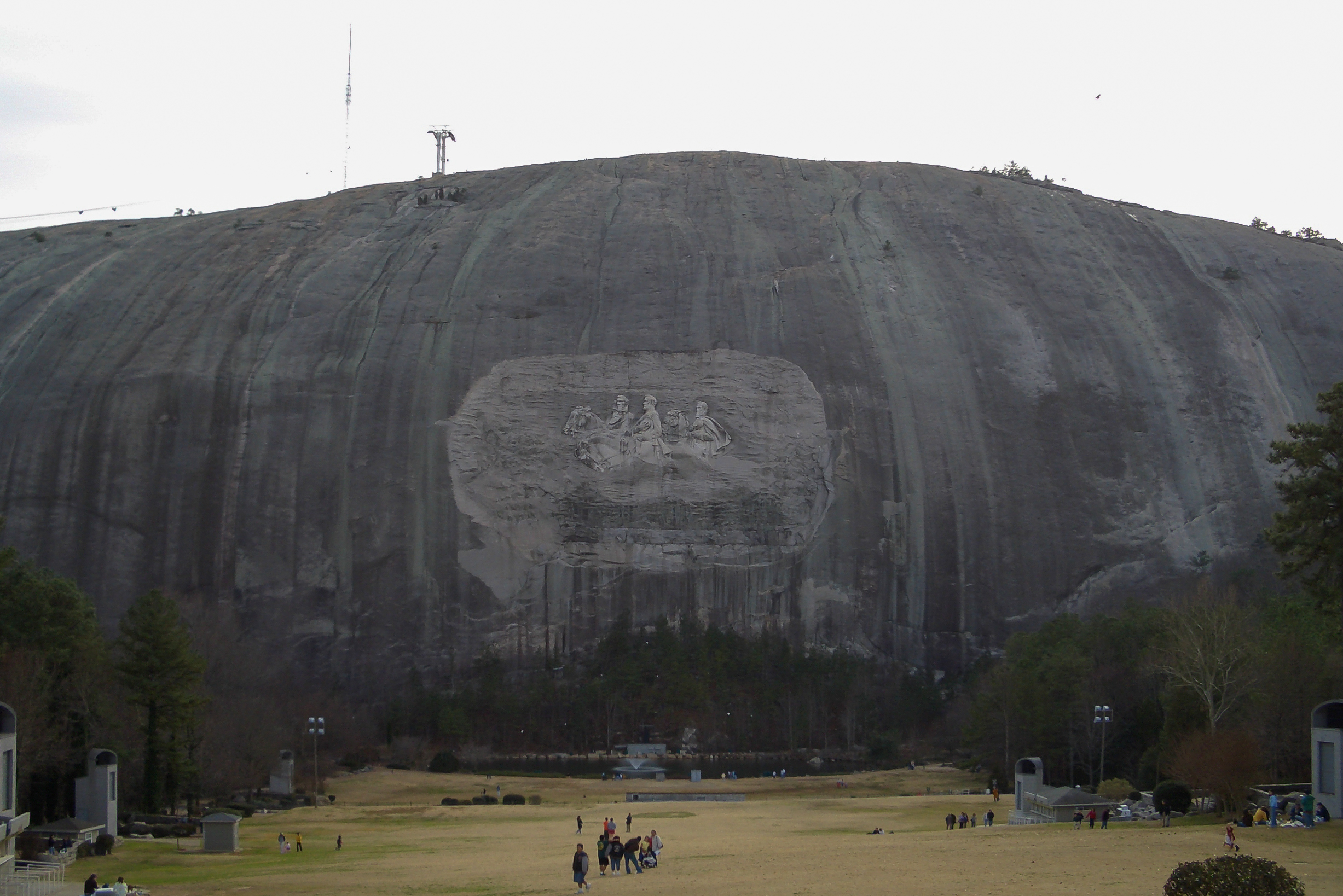 Stone Mountain, Georgia, USA